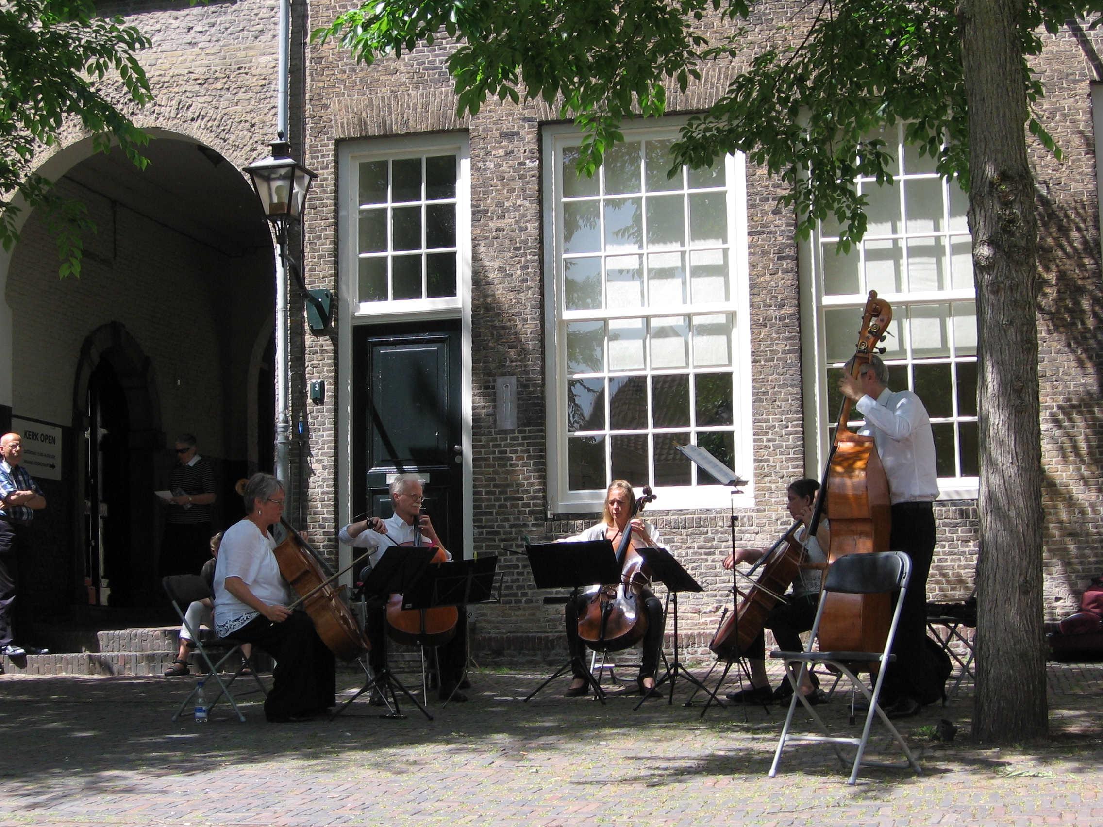 Concert of De Zagerij Pro (four cellos and a double bass) in Hof, Dordrecht, June 1, 2019